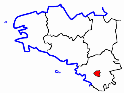 Description: Map for localisazion of cantons of Pays-de-Loire, region in France Source: made by Hervé Tigier in april 2005 from another large map (published in 1990)